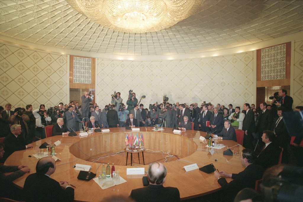 “Signing of Protocol on Establishing Commonwealth of Independent States”. The heads of 11 independent states, i.e. former Soviet republics, met in Alma-Ata to sign the Protocol on Establishing the Commonwealth of Independent States. Other important documents, namely, the Alma-Ata Declaration, the Military Agreement, etc., were passed during the summit.